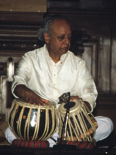 Alla Rakha was a master of the tabla, a classical Hindustani percussion instrument